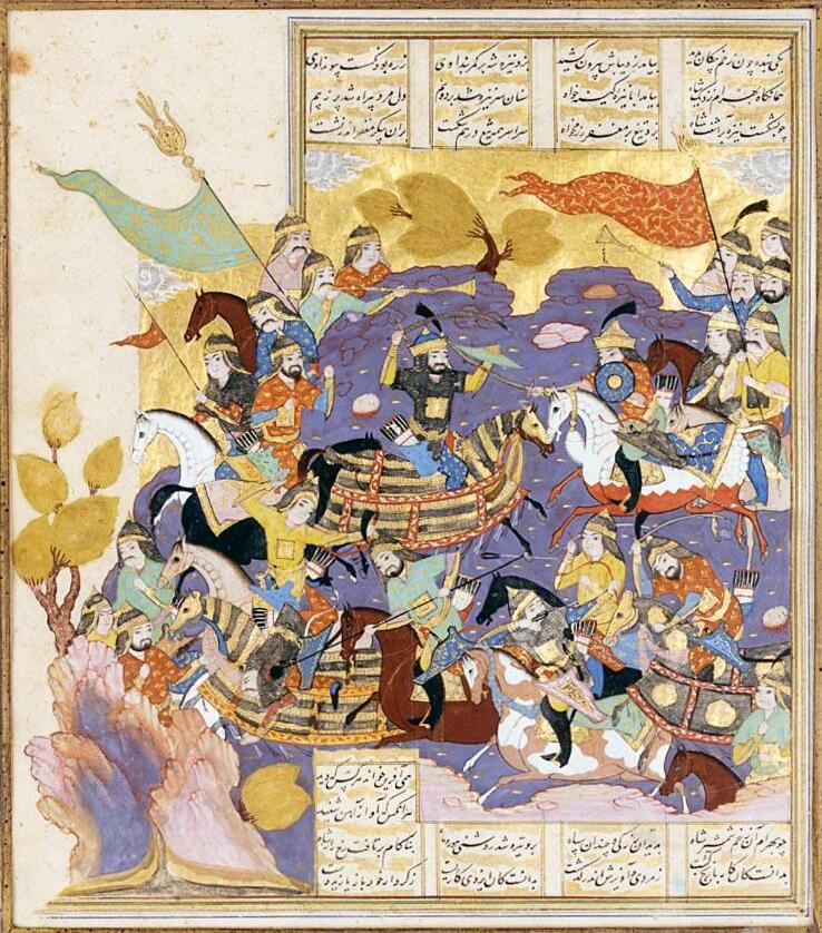 The same Persian themes and styles extended into Turkish painting as well (downloaded Mar. 2005) "THE BATTLE BETWEEN THE SASANIAN KING KHUSRAU PARVIS AND BAHRAM CHUBINEH, ILLUMINATED LEAF FROM THE SHAHNAMA OF FIRDAWSI, TURKISH, 16TH CENTURY. Miniature 20 by 19cm. leaf 23.5 by 20cm. DESCRIPTION: gouache heightened with gold on paper, text in four columns of nasta'liq script above and below miniature and 25 on the verso, miniature mounted with leaf from the same text. CATALOGUE NOTE: This miniature is closely comparable to two leaves from an unidentified manuscript in the late Dr. Edwin Binney's collection. The miniatures exhibit a similarly crowded field of horses and warriors in a mountain scene. Abstracted rocks and trees in the left of the foreground break through into the margin, as do the army's pennants at the top of the scene. Although the Binney miniatures were catalogued as Persian in 1966, the golden sky and grouping of the army suggest a Turkish origin and the two miniatures were reassessed as Turkish and dated to 1580 in the Binney catalogue. It has been suggested that Turkish artists working on the manuscript from which these miniatures originated were working in the Tabriz style, as did those Turkish artists employed on the Houghton Shahnama (Binney 1979, cat 21a&b, p.44-46). It is likely that the current miniature is a product of the same tradition."